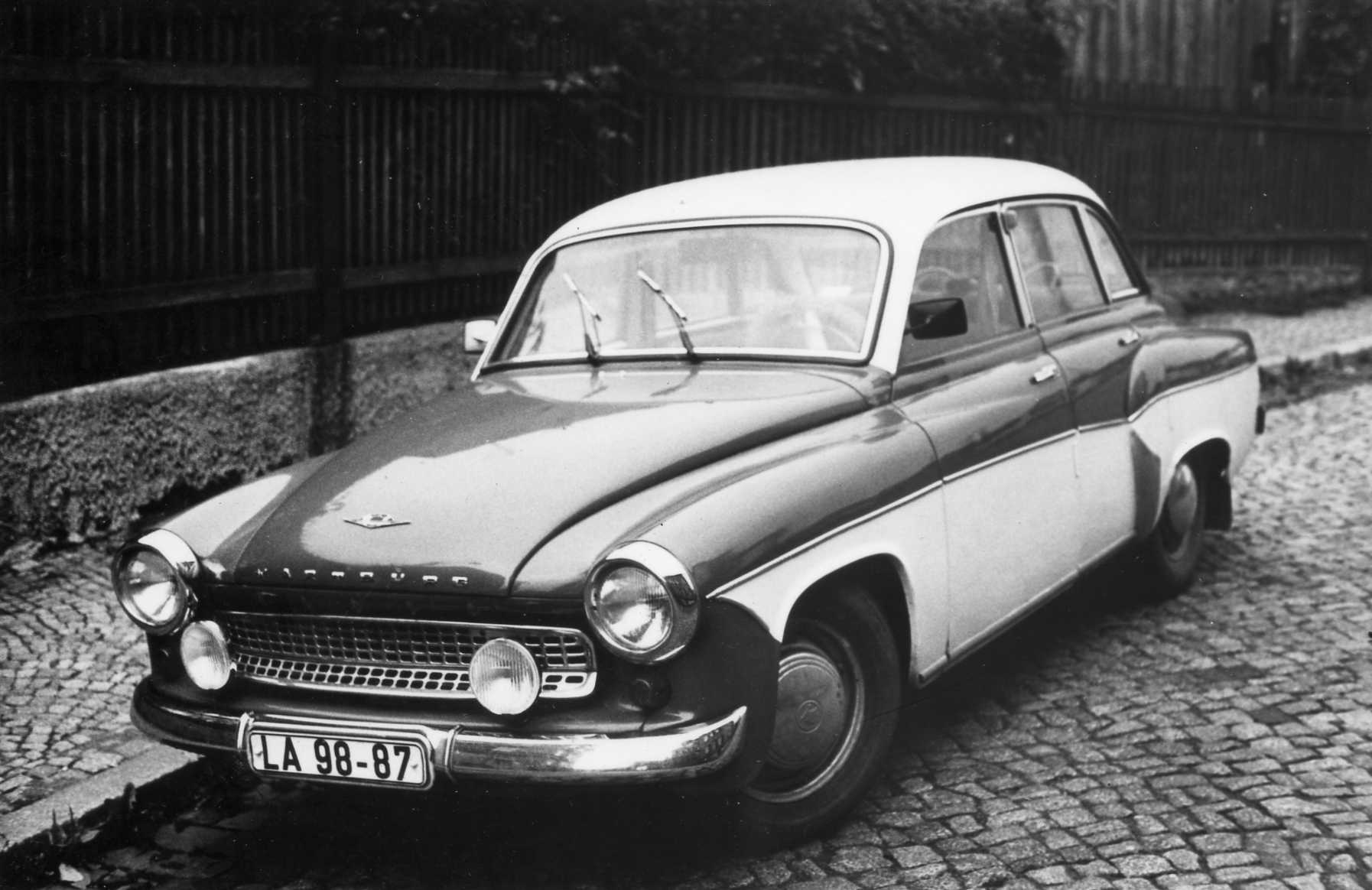 The Bezirk Erfurt registration was in its last year, before unified west german style number plates came into force in 1992 Two-tone white and blue Wartburg 311.